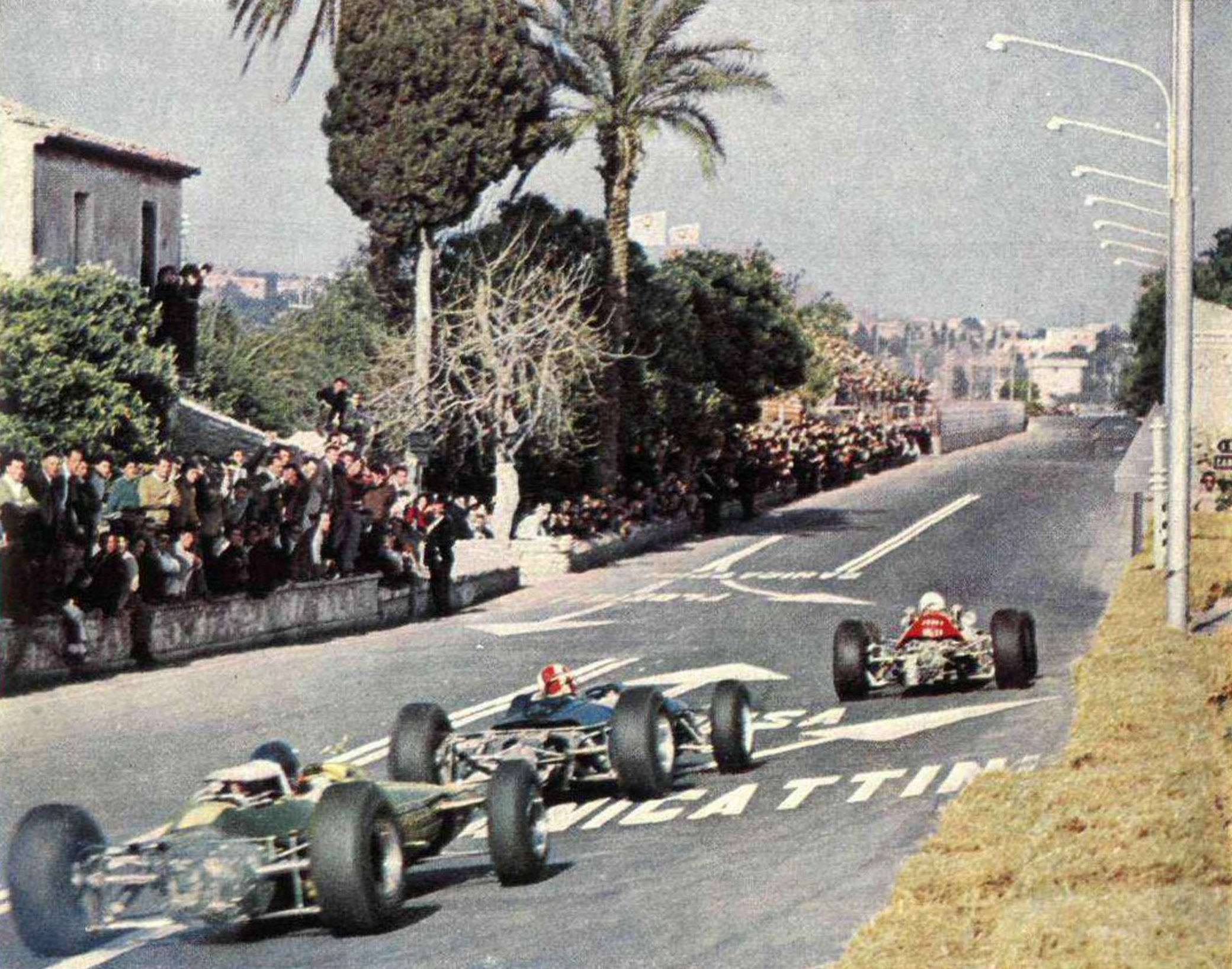 Syracuse (Italy), Syracuse Circuit, April 4, 1965. XIV Syracuse Grand Prix, part of the Formula One non-Championship calendar. John Surtees' Ferrari 158 V8 leads the race ahead Joseph “Jo” Siffert's Brabham-BRM BT11 V8 and James “Jim” Clark's Lotus-Climax 33 V8 on the main straight. Clark won the race ahead of Surtees, while Siffert was forced to retire due to overheating on lap 44.Original caption: "WORLD CHAMPION SANDWICH.—Siffert (Brabham-B.R.M. V8) is the meat as Surtees (Ferrari V8) leads and Clark (Lotus-Climax V8) hangs on at the rear, the three of them accelerating along the straight past the pits at Siracusa. The huge Sicilian crowd overflowed and swarmed onto the walls at many points on the circuit."